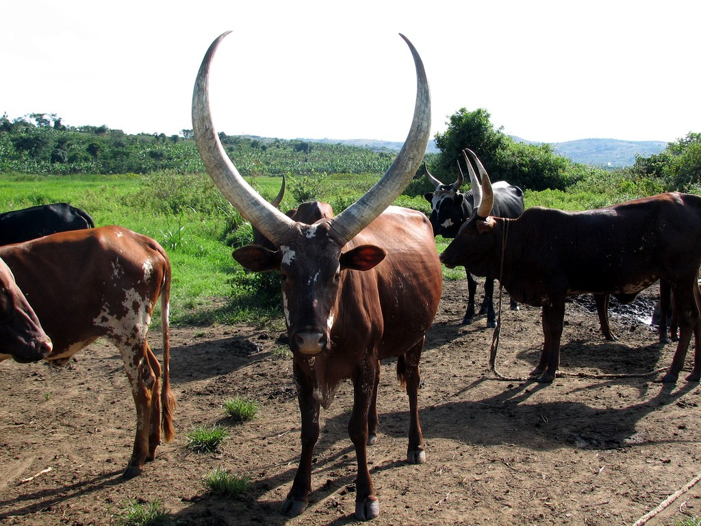 Ankole cow displaying a nice rack.